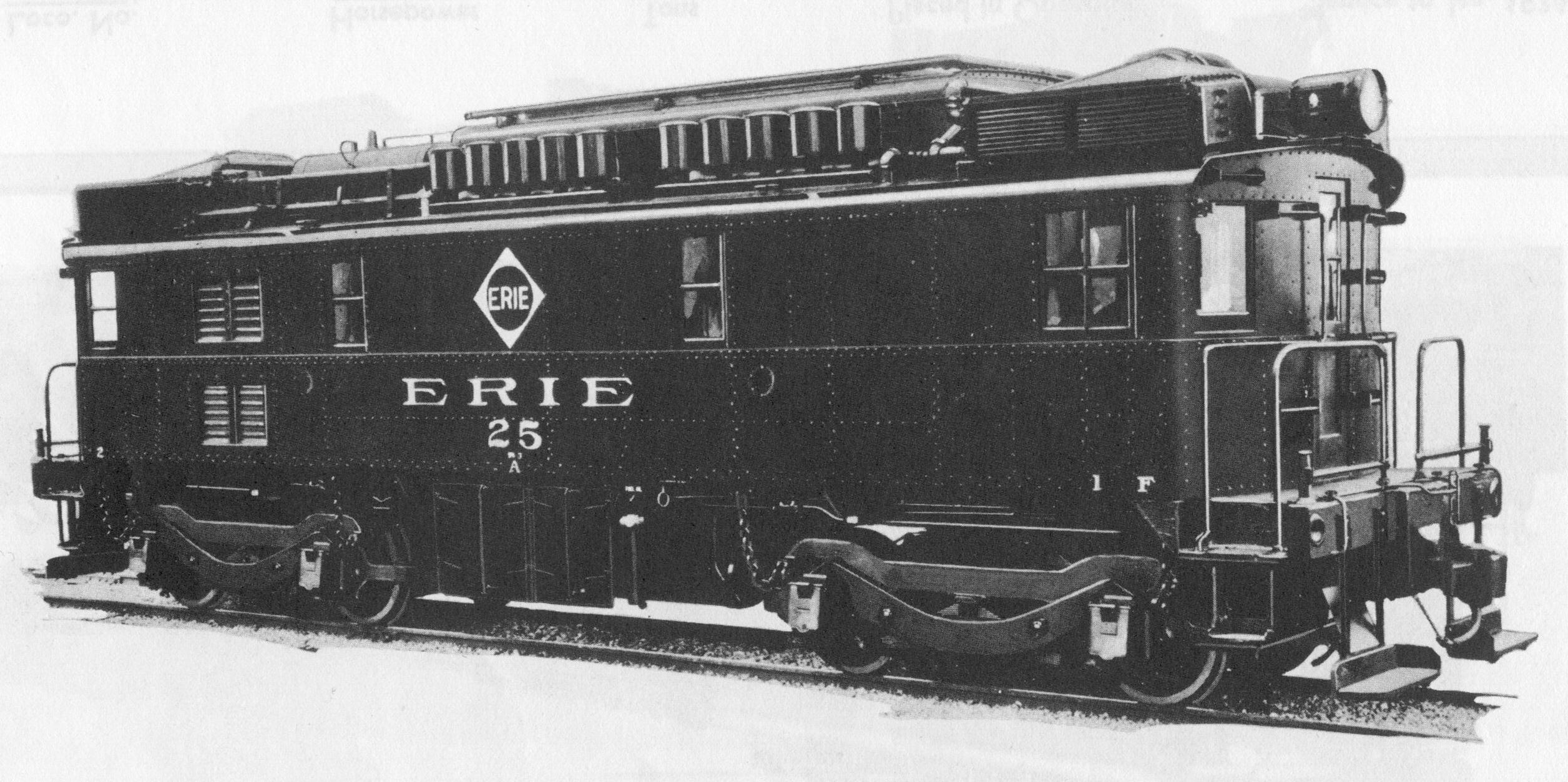 Photo of Erie Railroad's GE-Ingersoll Rand diesel-electric locomotive with road number 25 completed in April 1931. The locomotive pictured was the only built 800 hp unit built and was 1950 rebuilt as a yard slug before being scraped in the early 1970s.